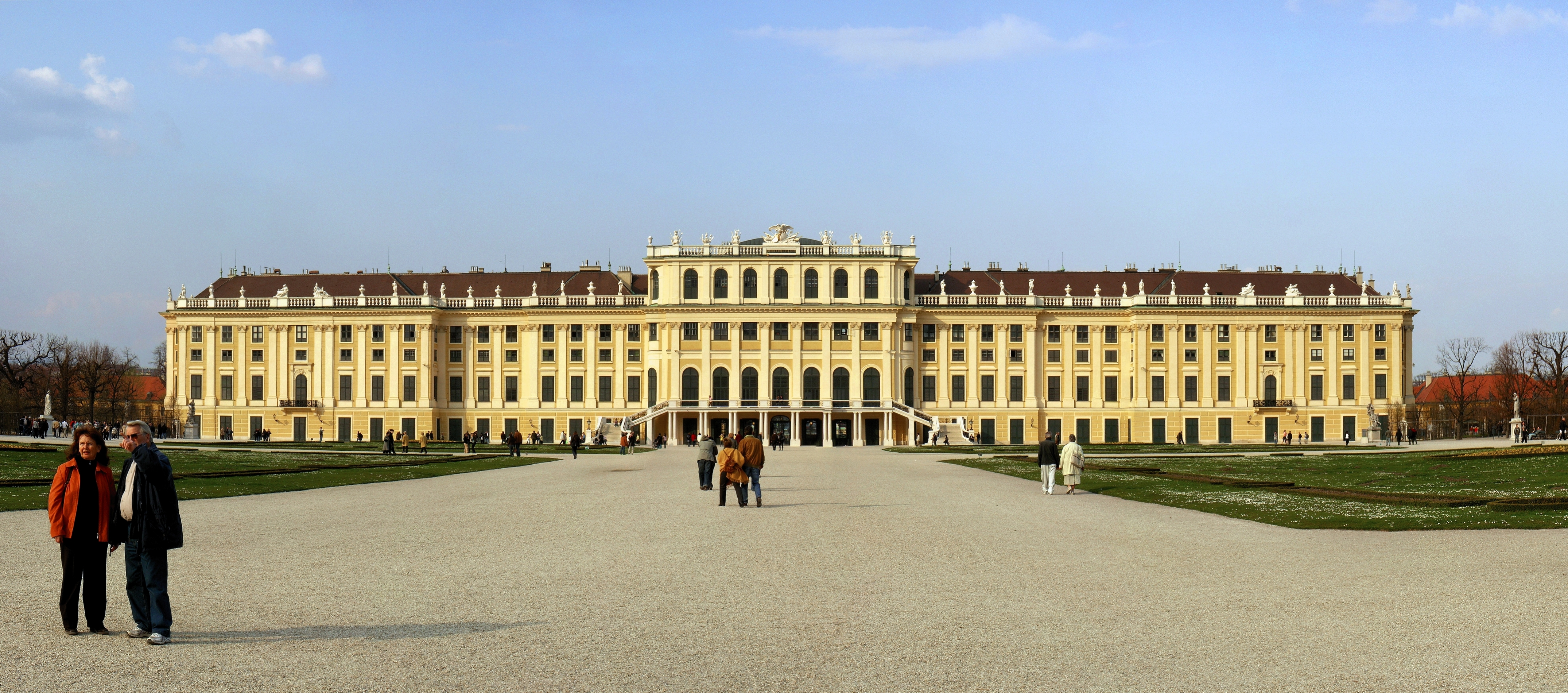 Austria, Vienna, Schönbrunn Palace